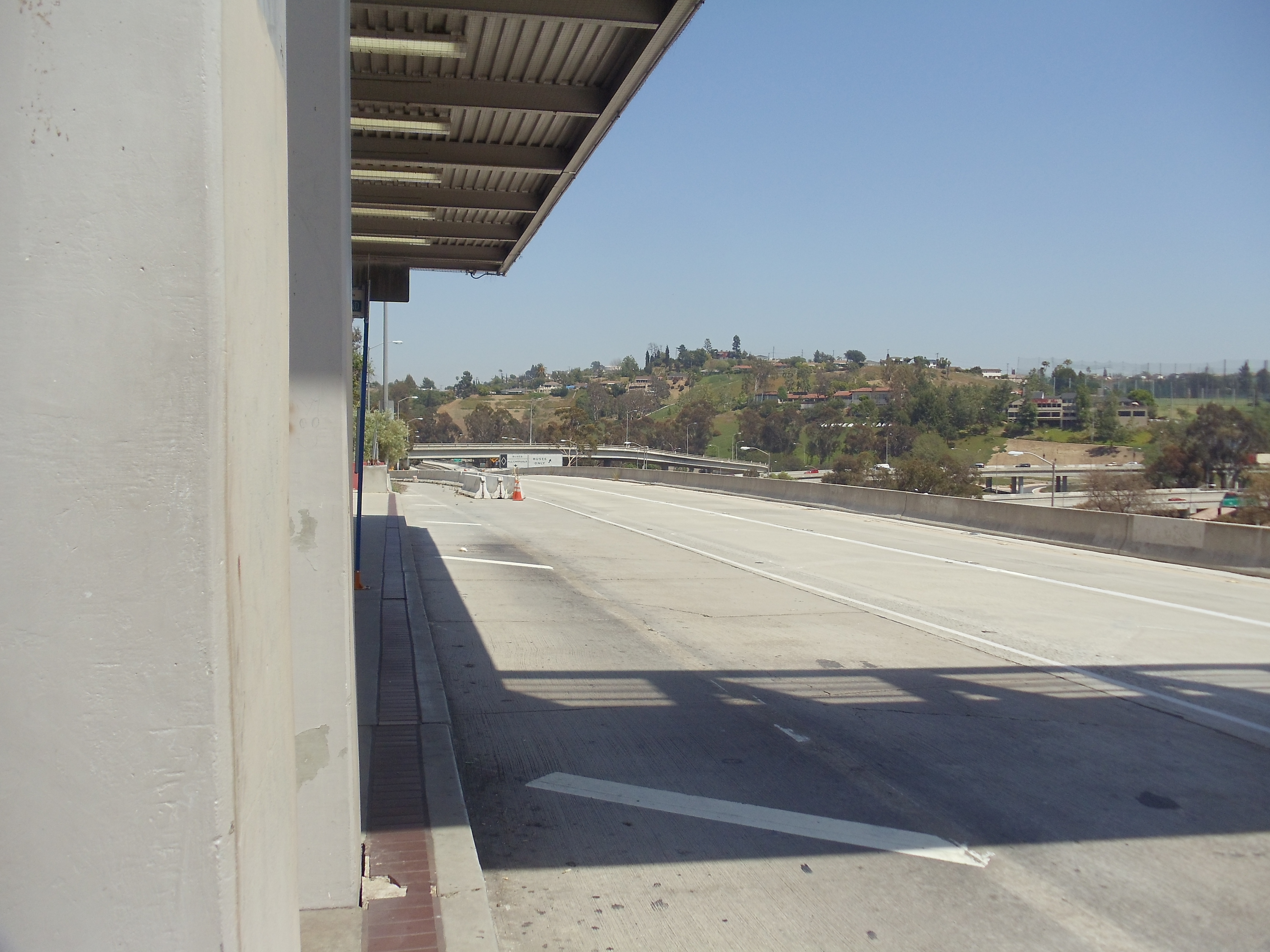 Cal State LA Metro Silver Line westbound platform.